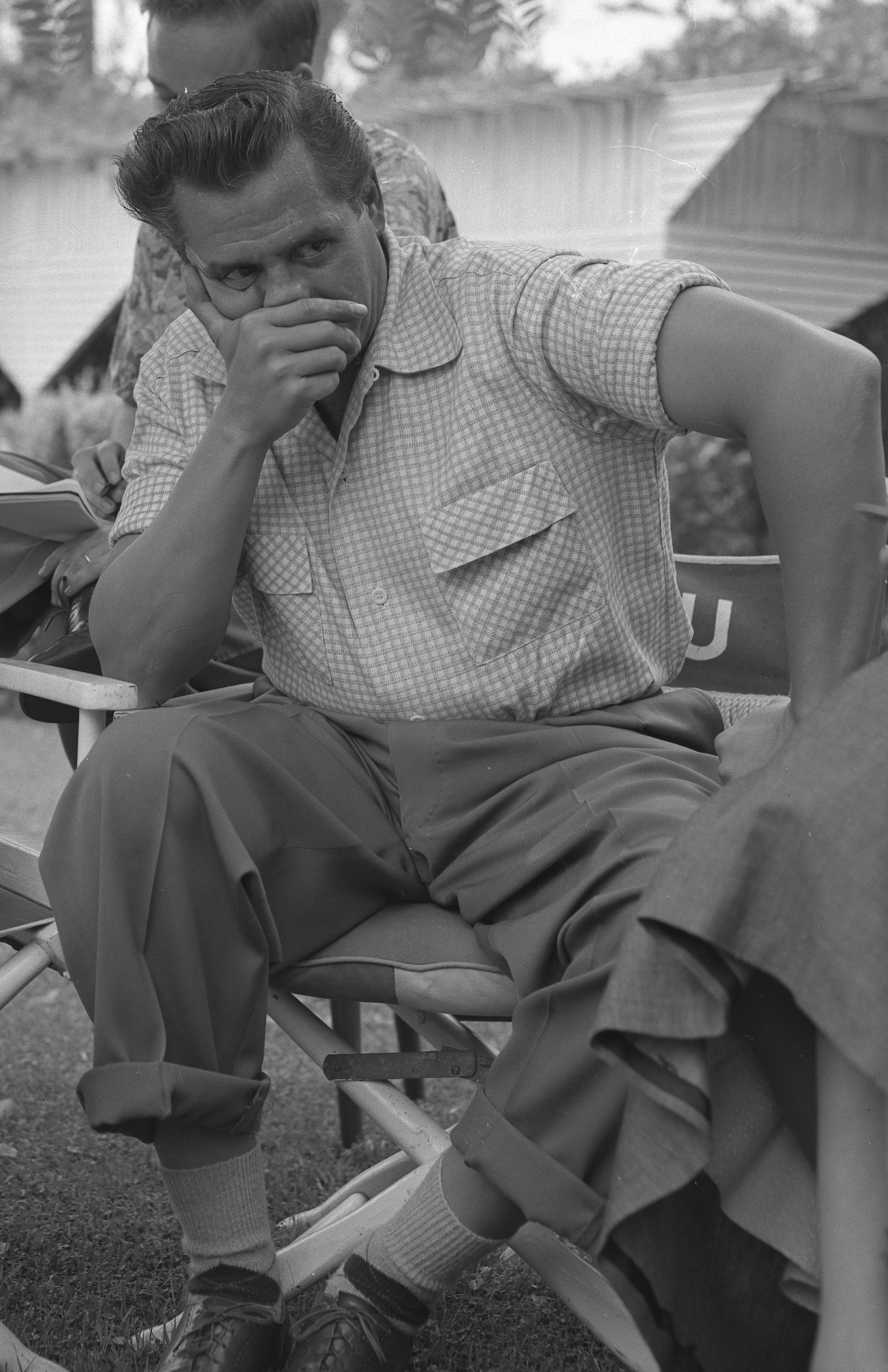 Actor, director, and band leader Desi Arnaz, cropped a photo with his wife Lucille Ball, seated in directors chairs at press conference in Los Angeles, Calif., 1953